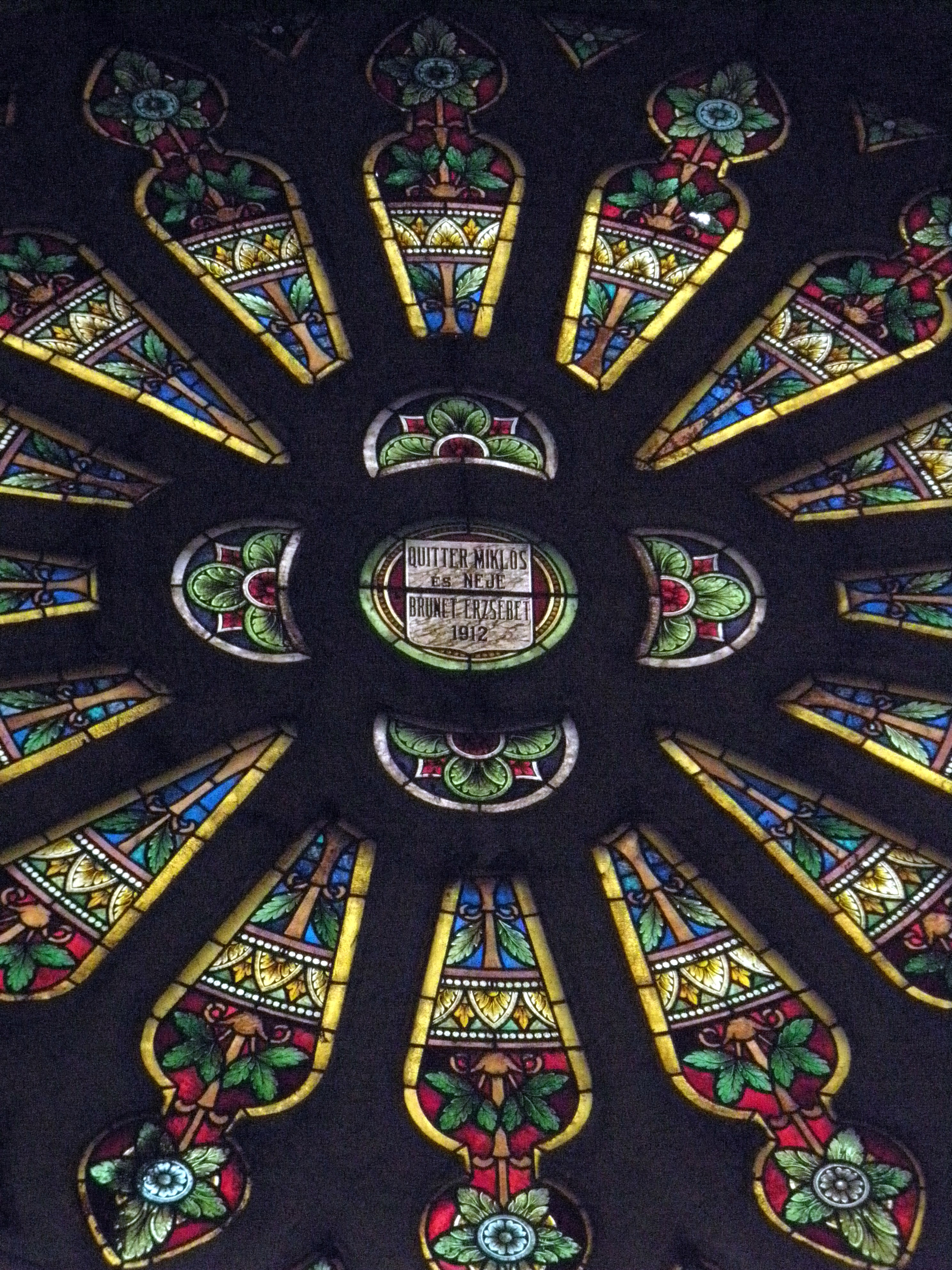 rozeta in Catholic church from 1911 in Jaša Tomić